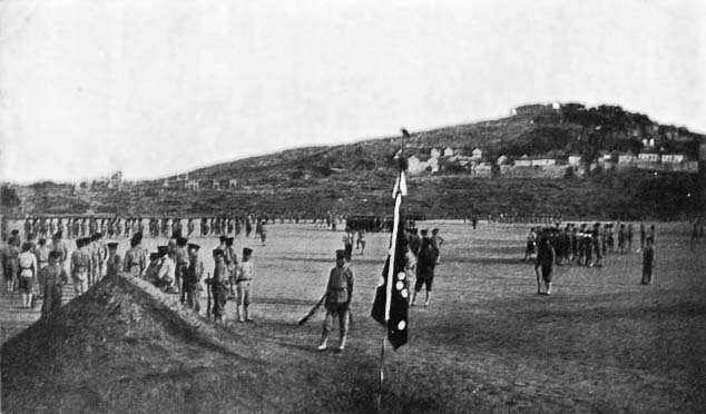 The Provincial Troops of General Chang Hsun at his Headquarters of Hsuchowfu.